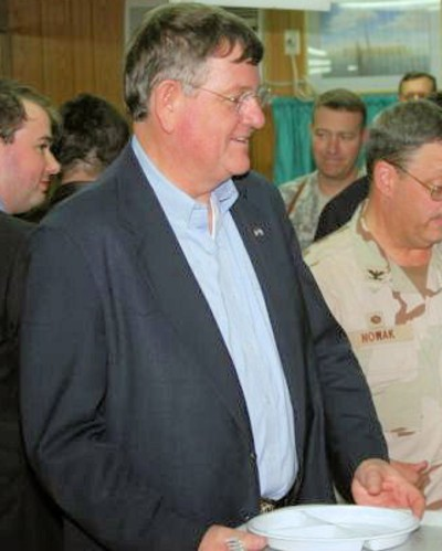 Photo of Wyoming Governor Dave Freudenthal